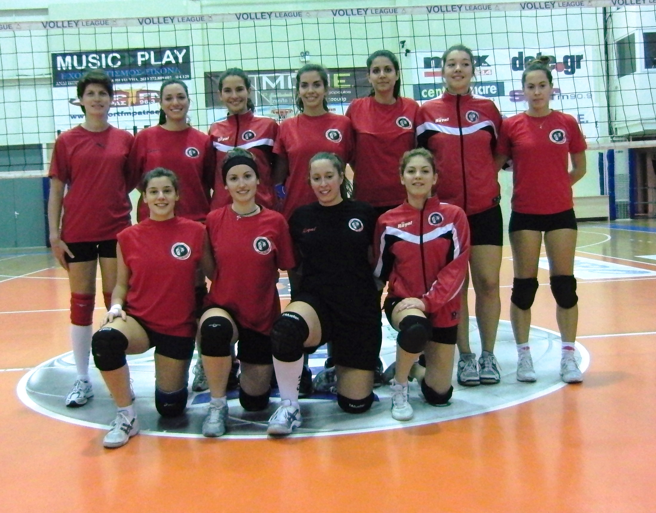 Panachaiki 2011-12 voleyball women's